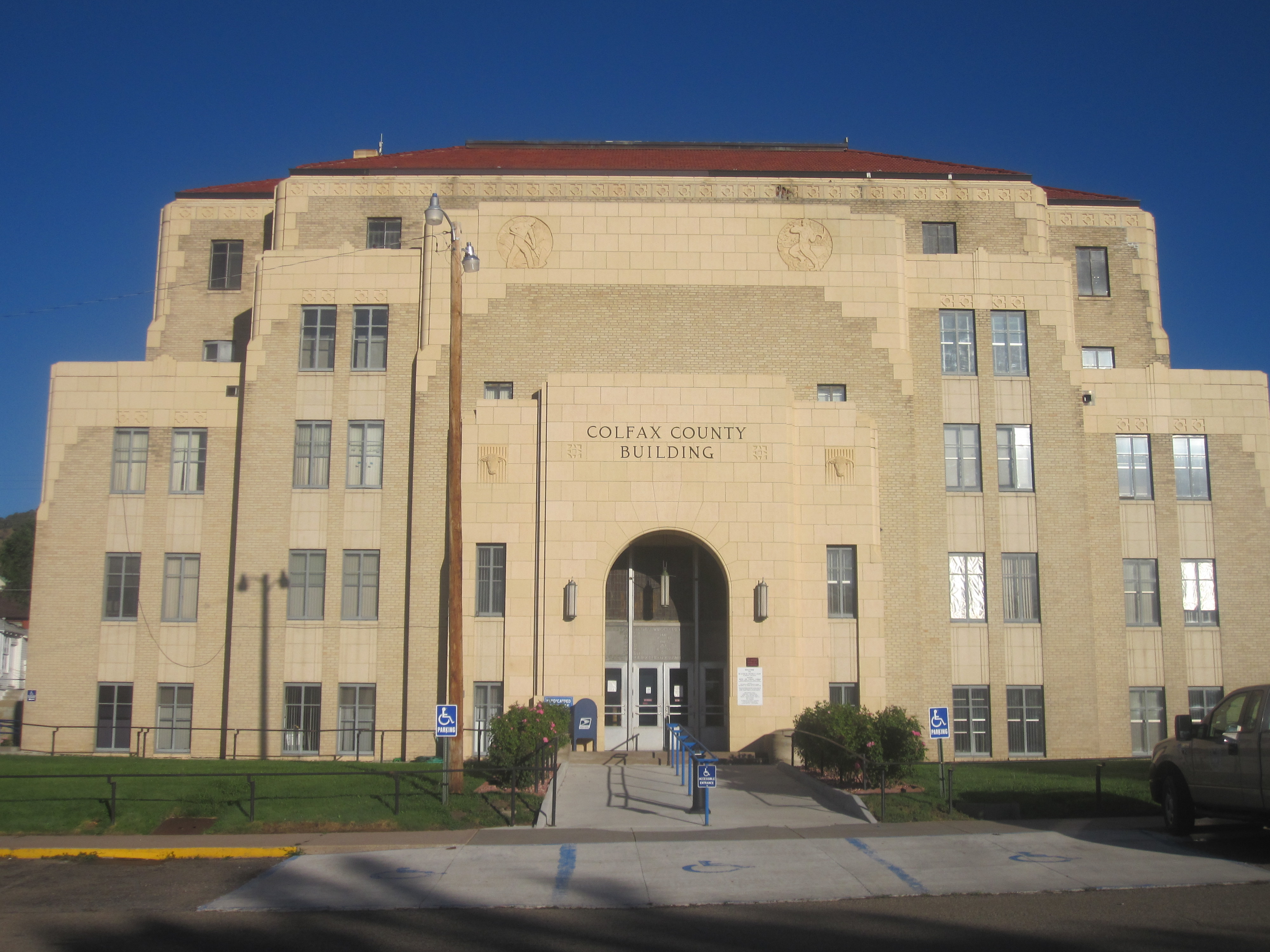 I took photo with Canon camera in Raton, NM.